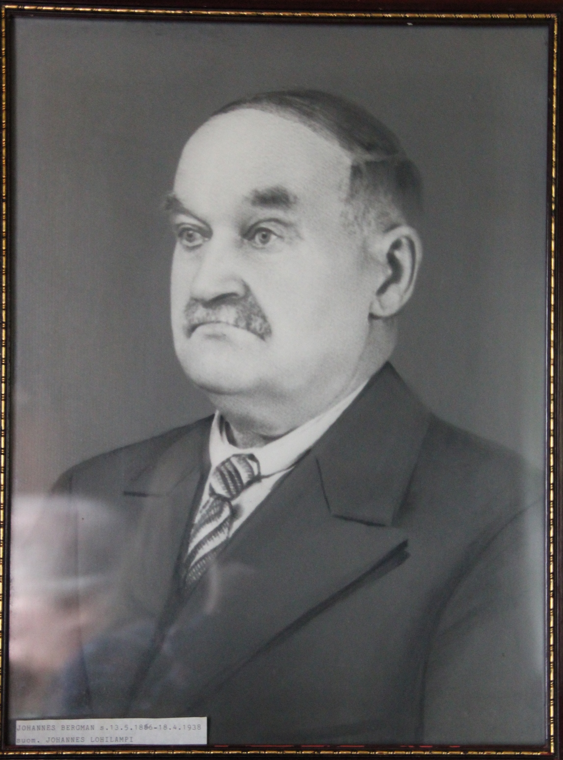 Johannes Lohilampi (1866-1938), a great man from Sammatti, Lohja, Finland